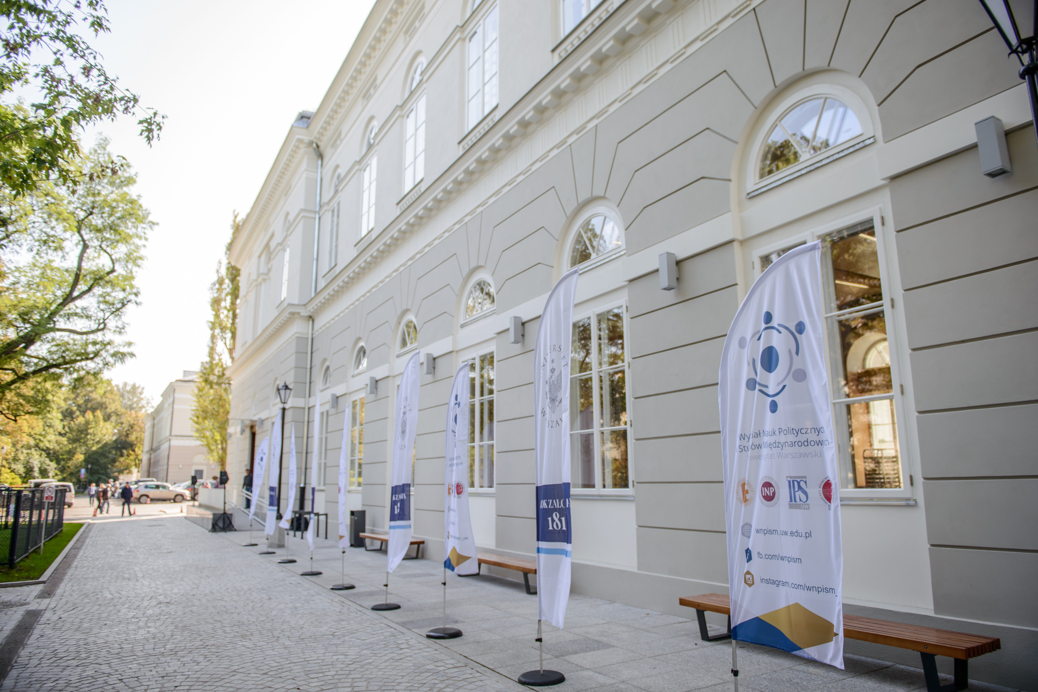 This photo shows Auditorium Building of Faculty of Political Science and International Studies (University of Warsaw)